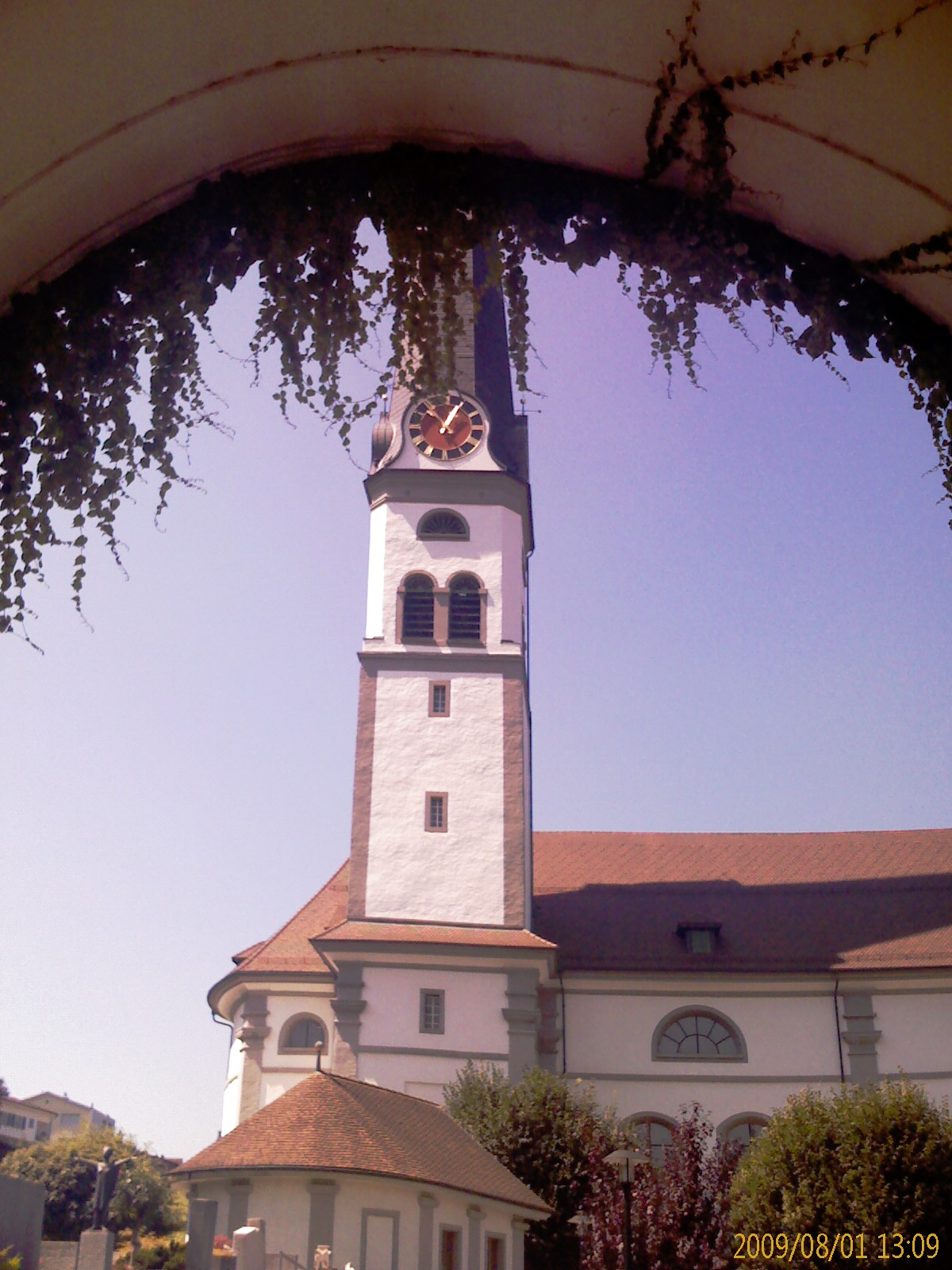 Church of Malters, canton of Luzern, SwitzerlandEsperanto: Preĝejo de Malters, Kantono Lucerno, Svislando